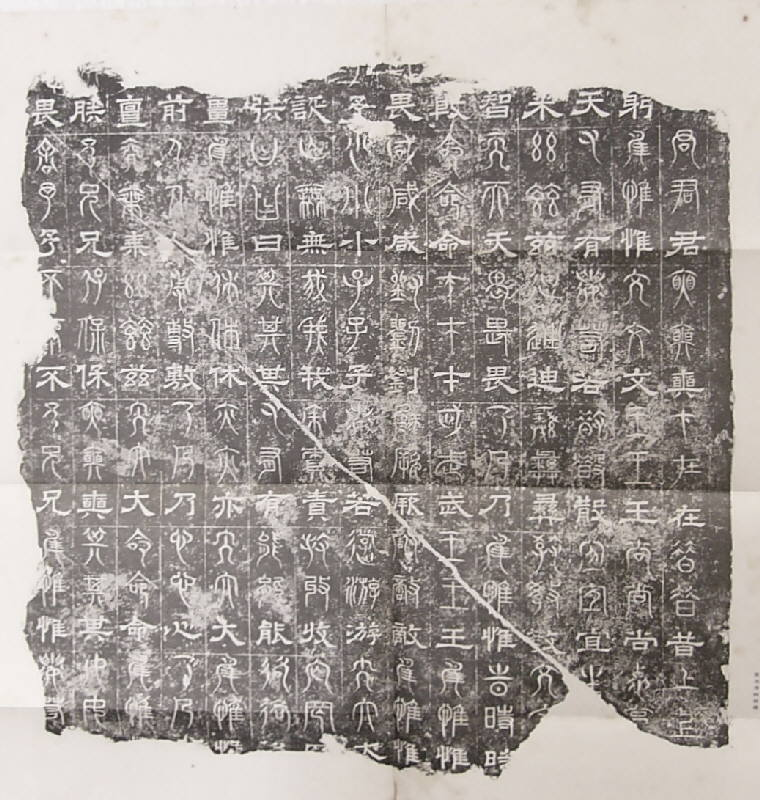 The Three scripts Stone Classics are a group of Chinese classic works carved on the orders of the Wei dynasty (ACE220-265) as a reference document for scholars. Height 47x Wide 44cm. They are written in three different script. By 19th century, stone fragments were unearthed in Luoyang, Honan, China. This is a rubbing of one of them, which is stored in Calligraphy Museum in Tokyo.